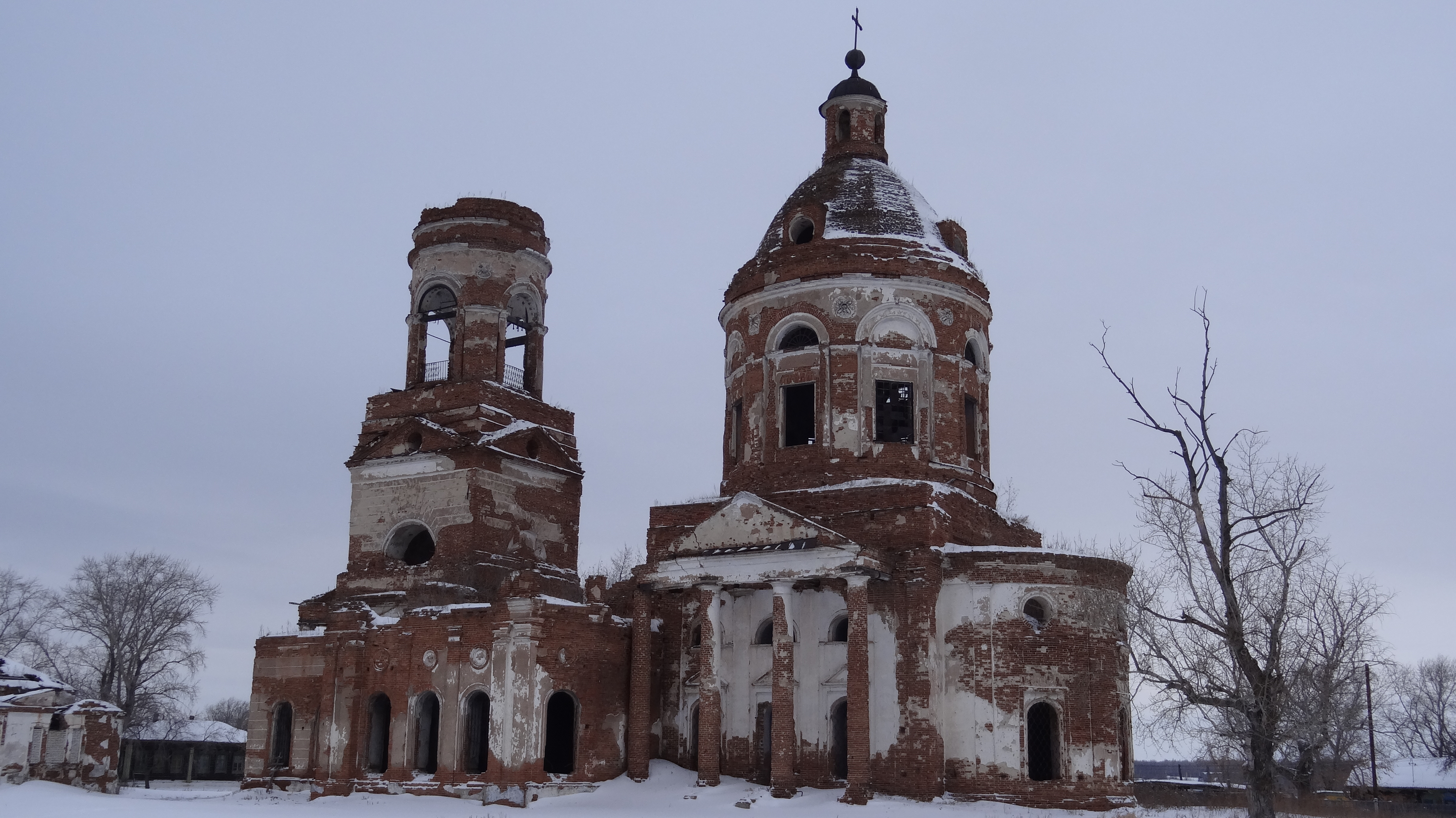 Church of the Epiphany in Ziryanka, Kurgan Oblast, Russia.